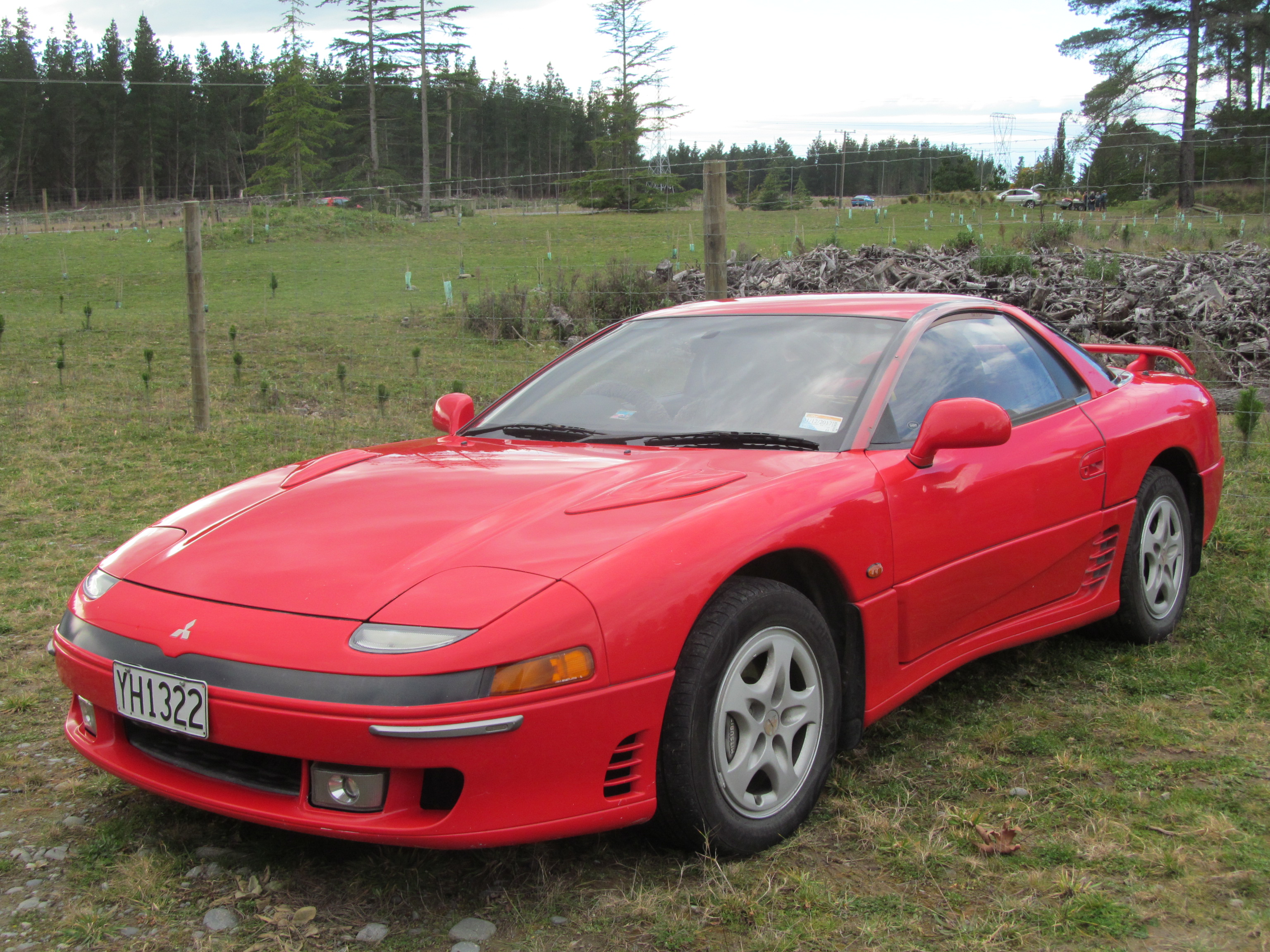 An incredibly original example of a proper 90s Japanese supercar - these GTOs have largely been thrashed to death by now. What's even more amazing is that this car has been with the same lady owner, who was kind enough to let me grab a photo, for just over 18 years since it was imported in 1999; it's also a rare manual and has only done about 160k.